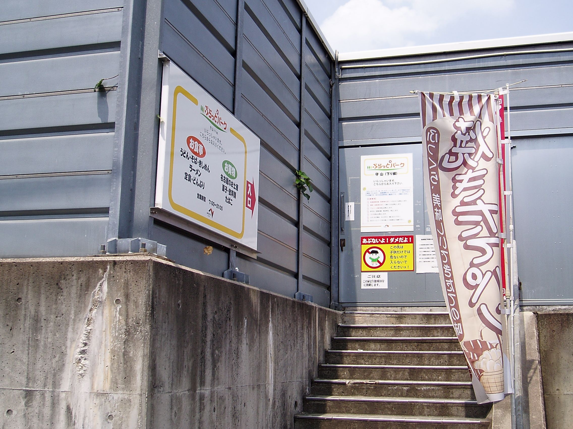 Entrance at Moriyama Parking Area